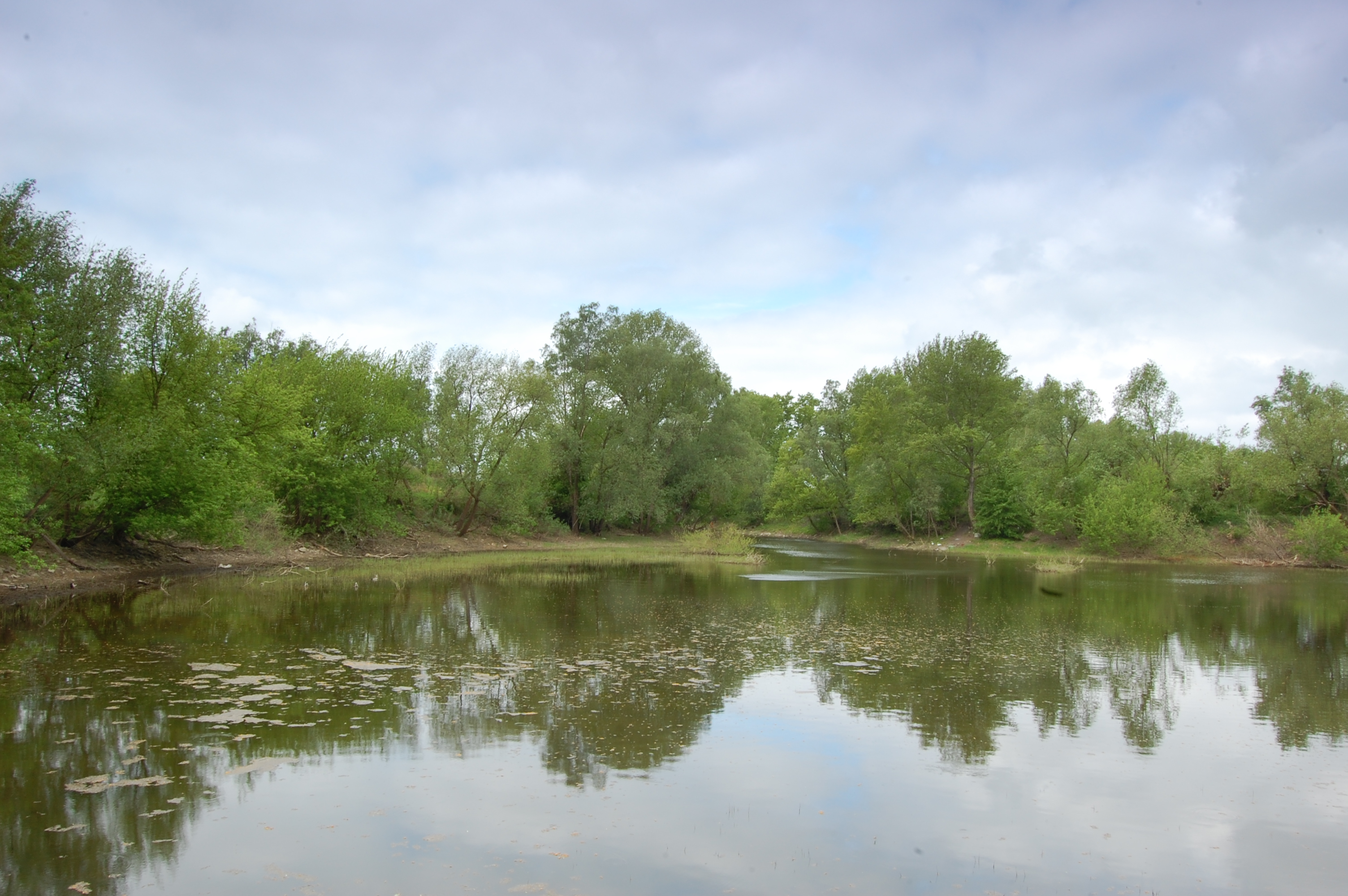 remains of the old port, Włocławek, Poland